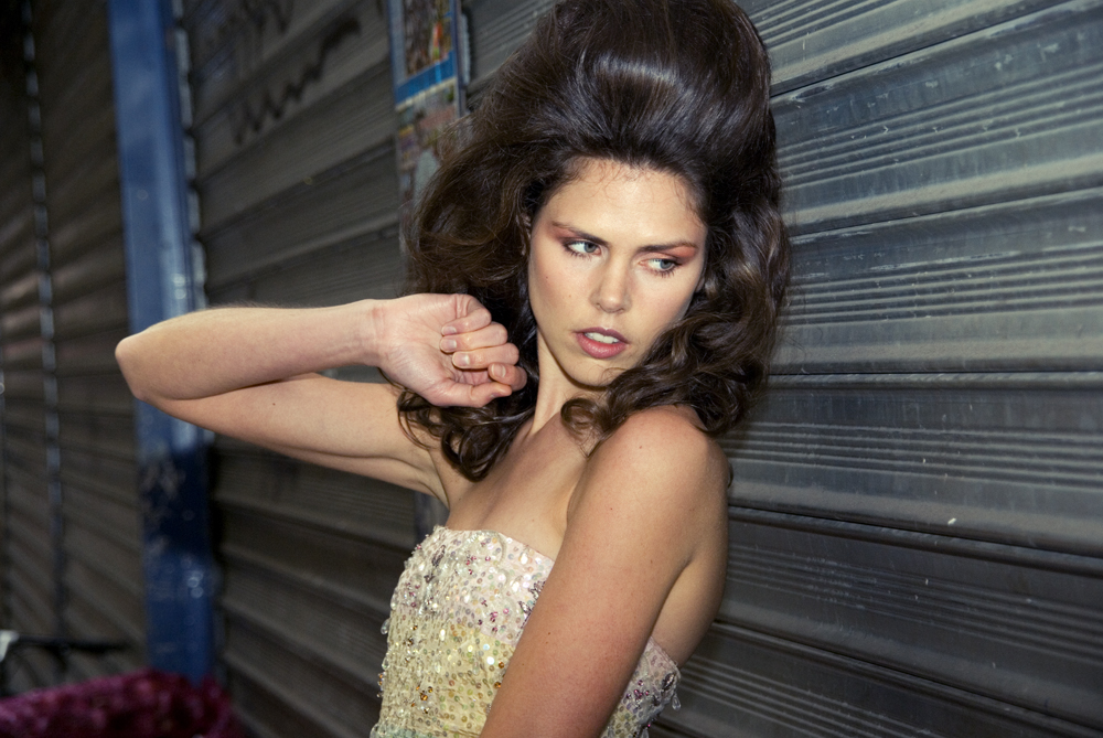 Sarah Parr with a Carven dress, from New Madison agency